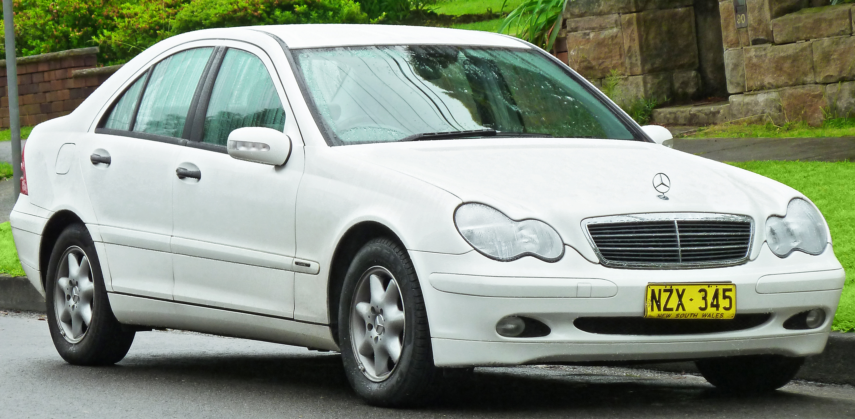 2003 Mercedes-Benz C 180 Kompressor (W 203 MY03) Classic sedan. Photographed in East Lindfield, New South Wales, Australia.